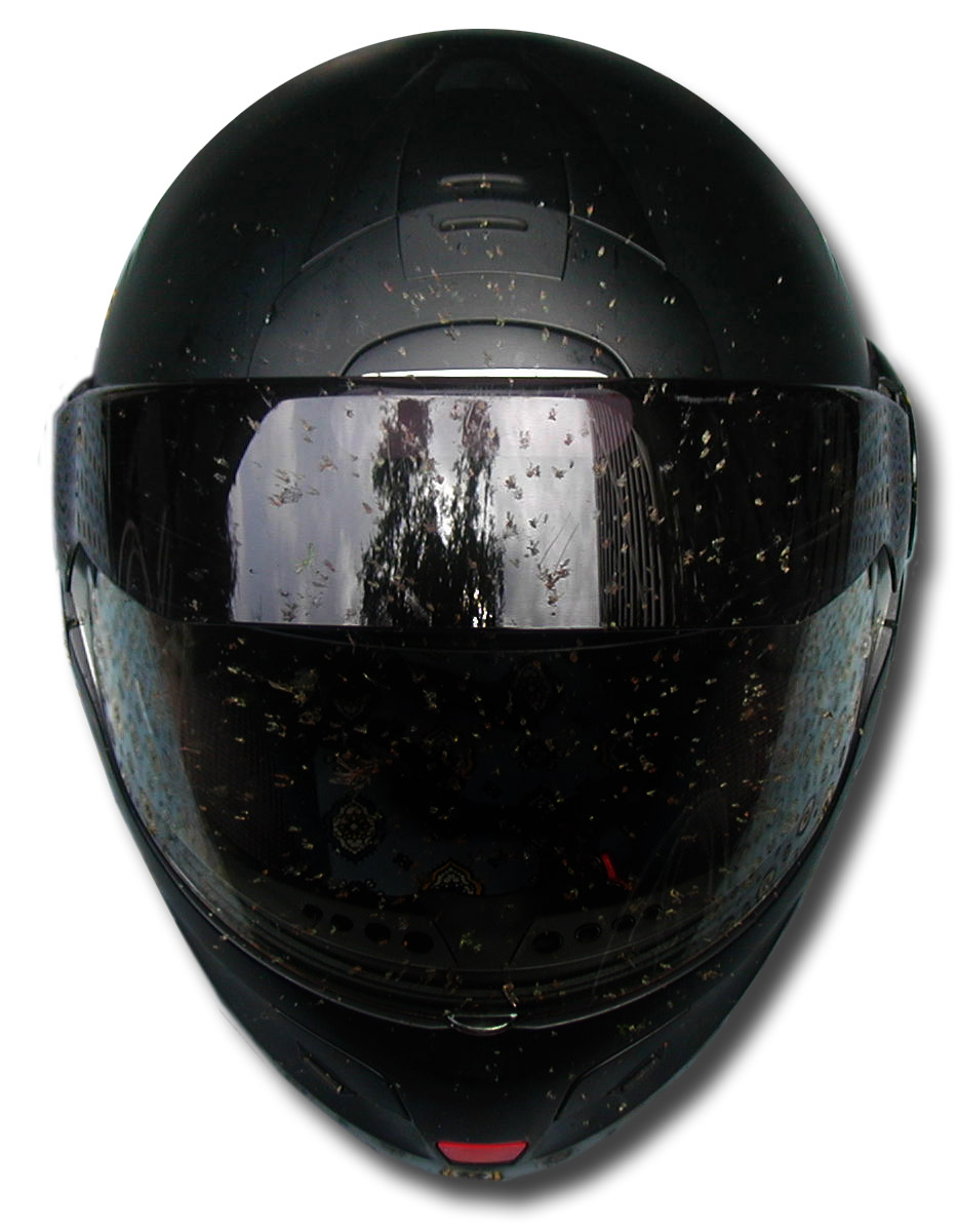 Roadkill on a helmet